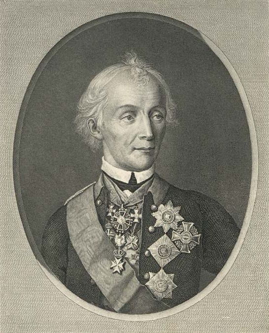 The engraving after the pastel portrait of Alexander Suvorov by J.H. Schmidt (1800); the print of 1884.For the portrait of A. Suvorov Nikolay Utkon was elected a councilor of Imperial Academy of Arts.Alexander Suvorov is portrayed in the Austrian uniform of a field marshal.